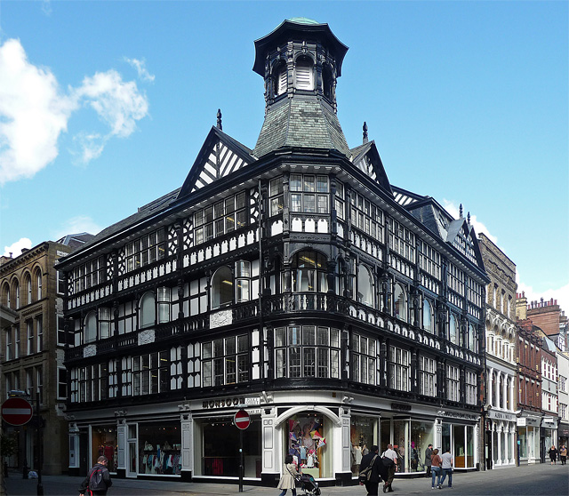 Photograph of 15-17 King Street, Manchester